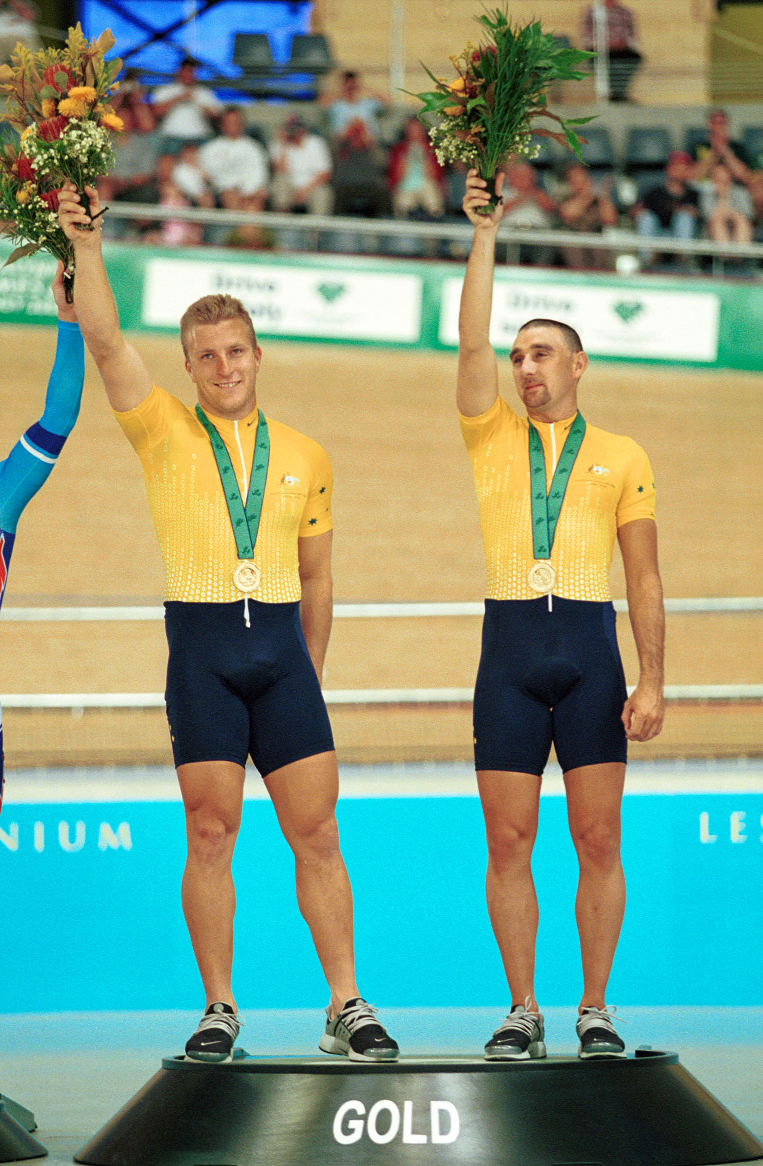 Australian track cyclists Darren Harry and Paul Clohessy on the gold medal podium after winning the Men's Tandem Sprint Open at the 2000 Sydney Paralympic Games